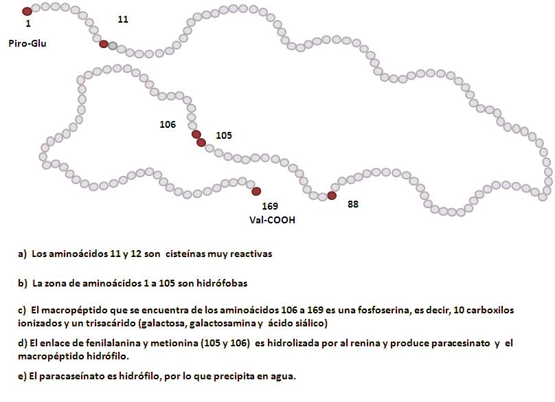 This is the graphic of one casein protein. This diagram shows how is the strcuture of one casein protein of the type kappa.